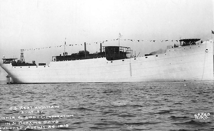 Afloat immediately after launching at the Skinner & Eddy Corporation shipyard, Seattle, Washington, on 26 August 1918. This ship served as USS West Humhaw (ID # 3718) from September 1918 to January 1919. Note text on the original print, stating that she was built in 51 working days.